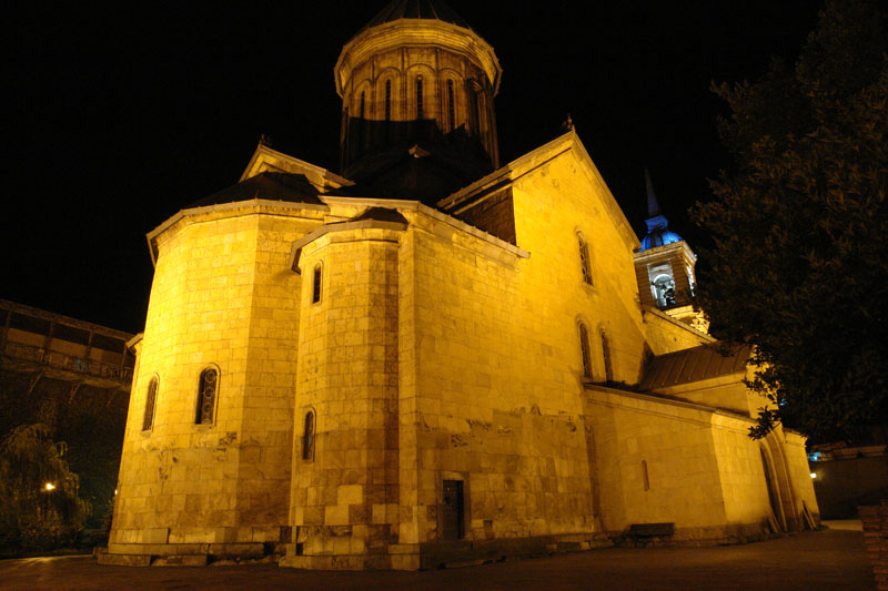 Tbilisi Sioni Cathedral